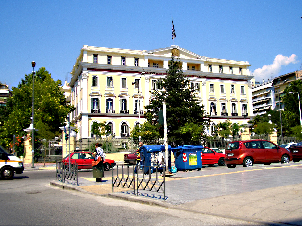 Dioikitirio. The Residence of the Ministry for Macedonia and Thrace. Architectural project of the Italian architect Vitaliano Poselli. Agiou Dimitriou Street. Thessaloniki